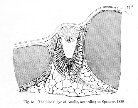 Parietal eye of lizard Anolis